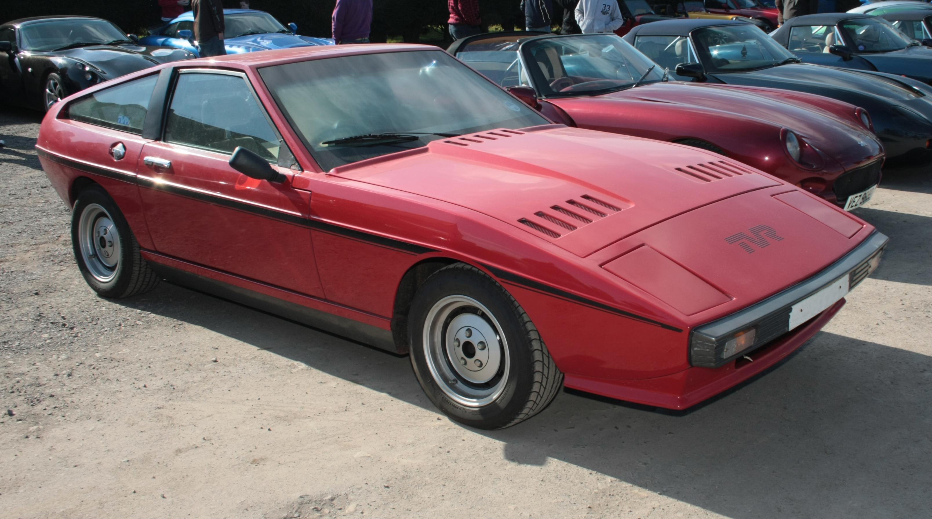 1980 TVR Tasmin 280i at Donington, UK, March 2010